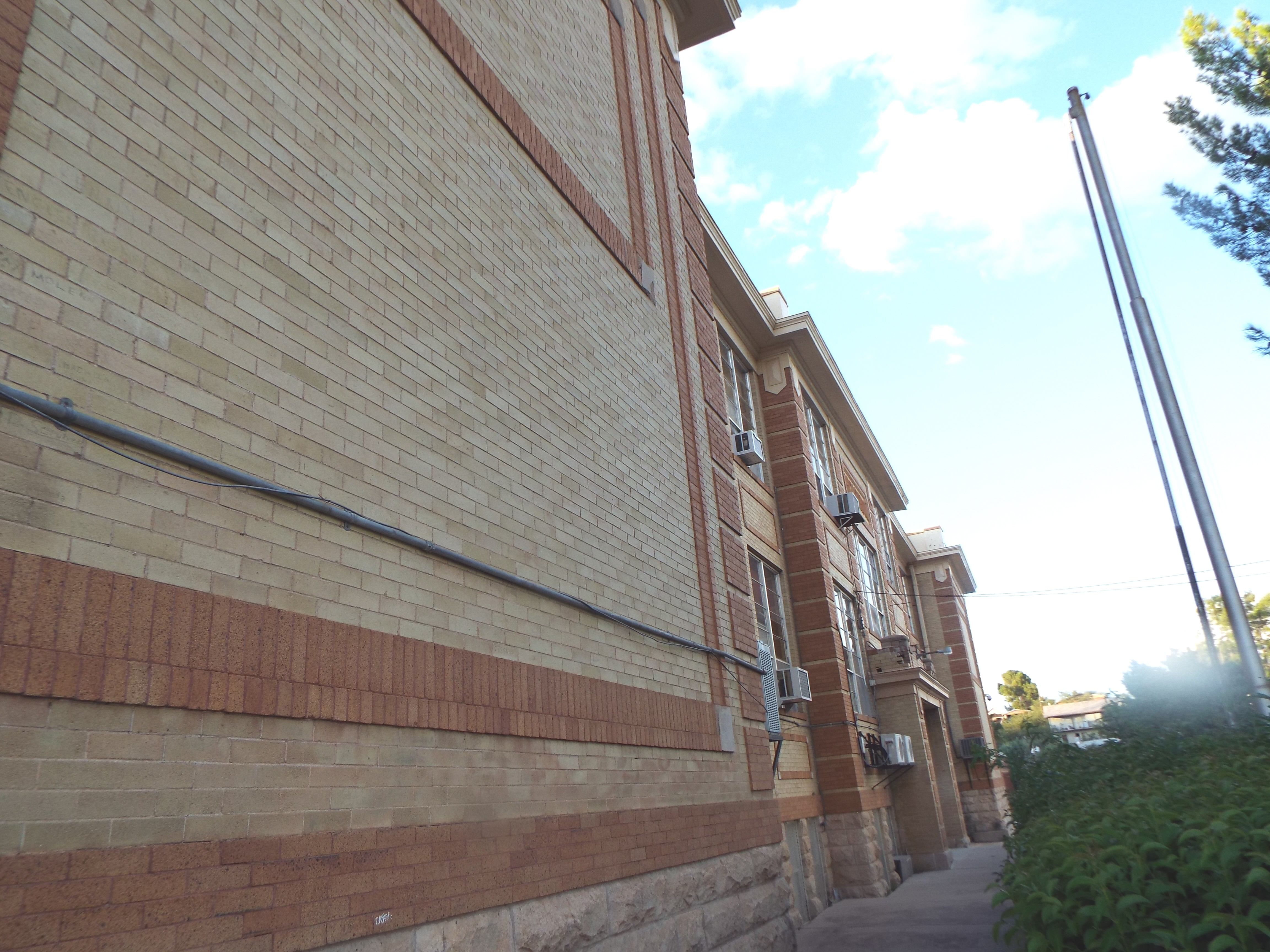 School-Nogales High School-1917 in Nogales, Az